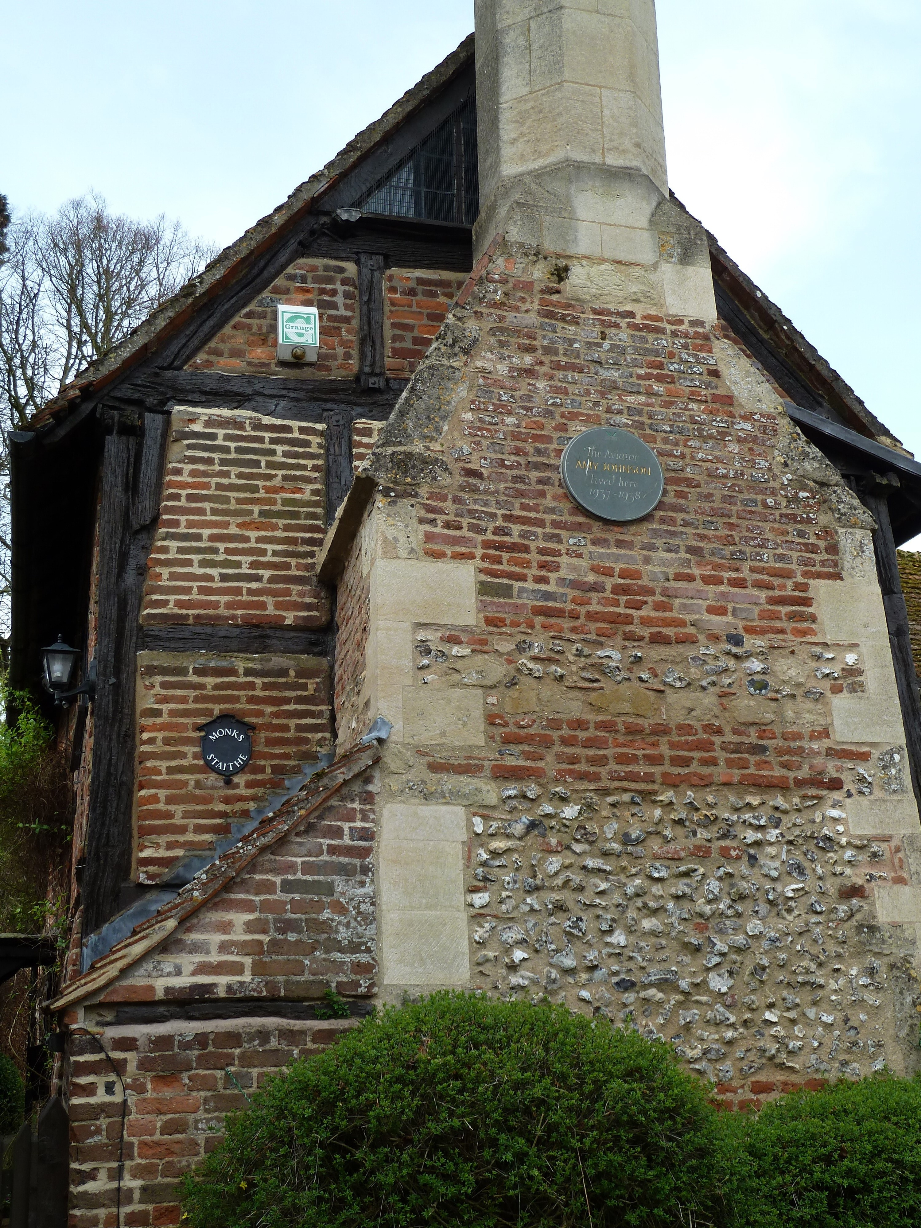 commemorative plaque for Amy Johnson